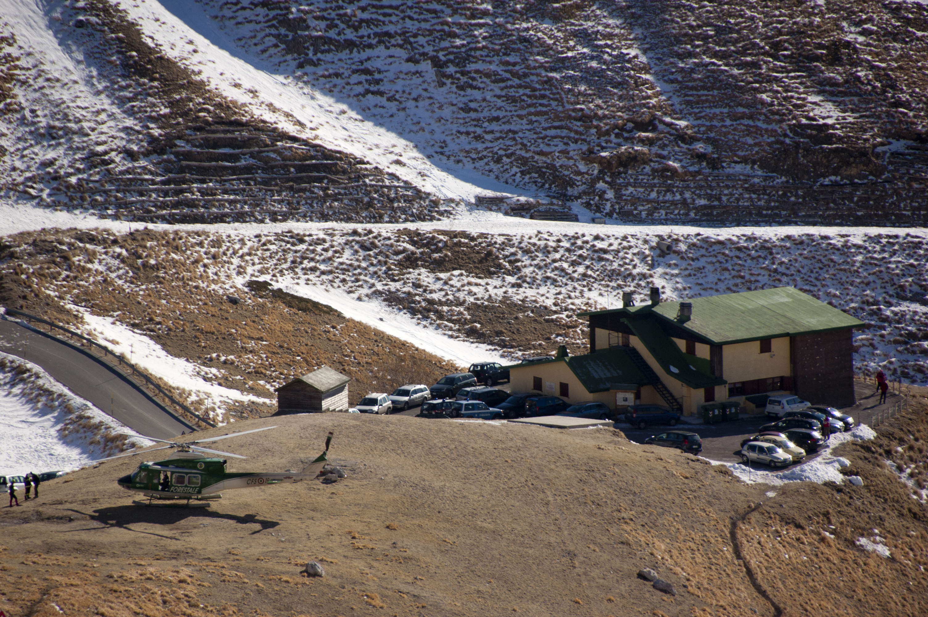 Bell 412 helicopter of italian State Forestry Corps in a mountain rescue operation with italian Corpo Nazionale di Soccorso Alpino e Speleologico at Monte Terminillo (Rieti municipality, Lazio, Italy)